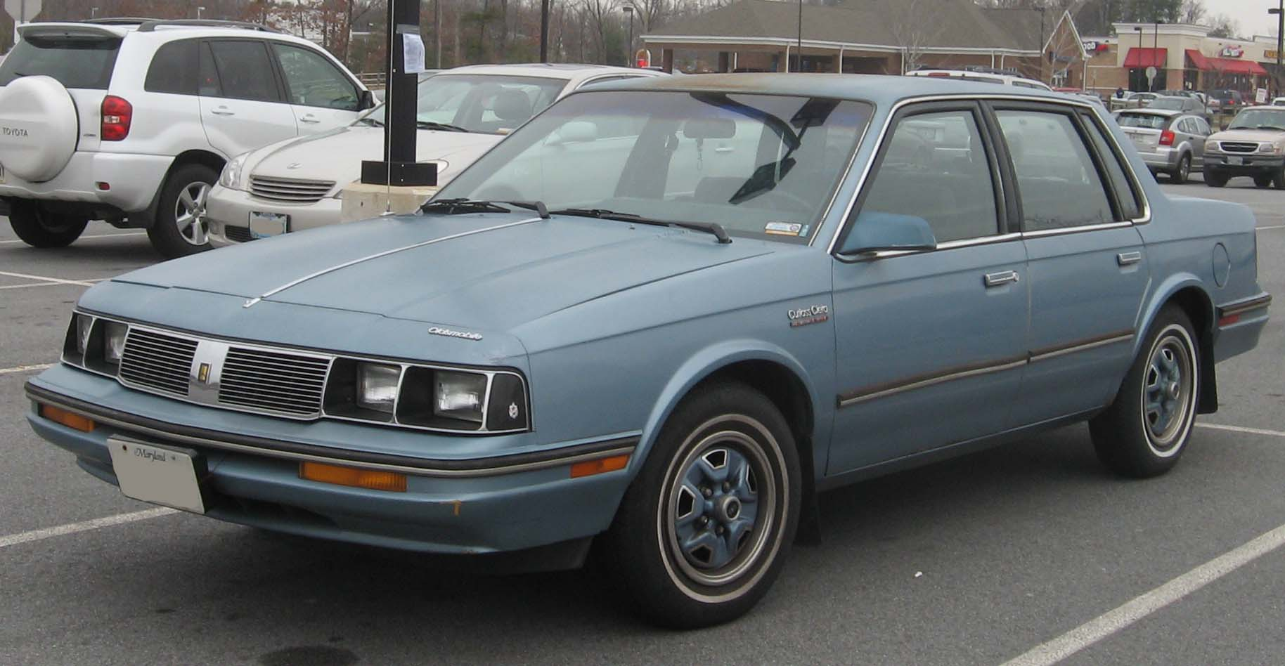 1985-1988 Oldsmobile Cutlass Ciera photographed in Waldorf, Maryland, USA.